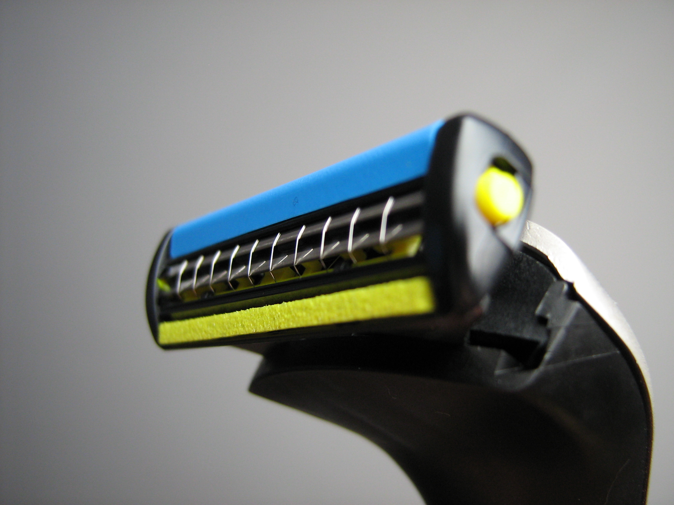 Shaving system with 2 blades. Wilkinson Sword, Protector 3D diamond.